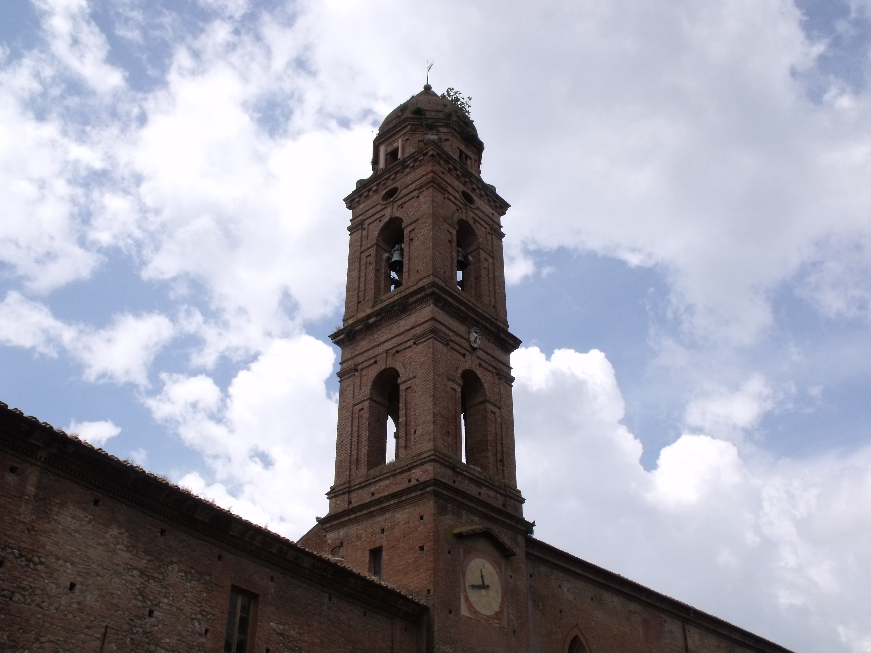 Campanile of the Church Chiesa di S. Niccolò al Carmine in Siena, Tuscany, Italy